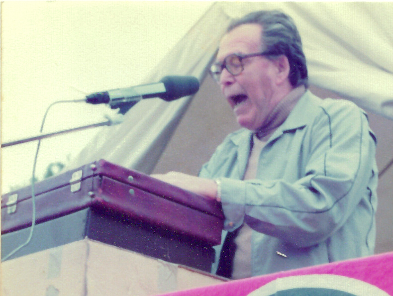 Jakob Moneta holding a speech at a rally of the SJD-Die Falken during the eighties